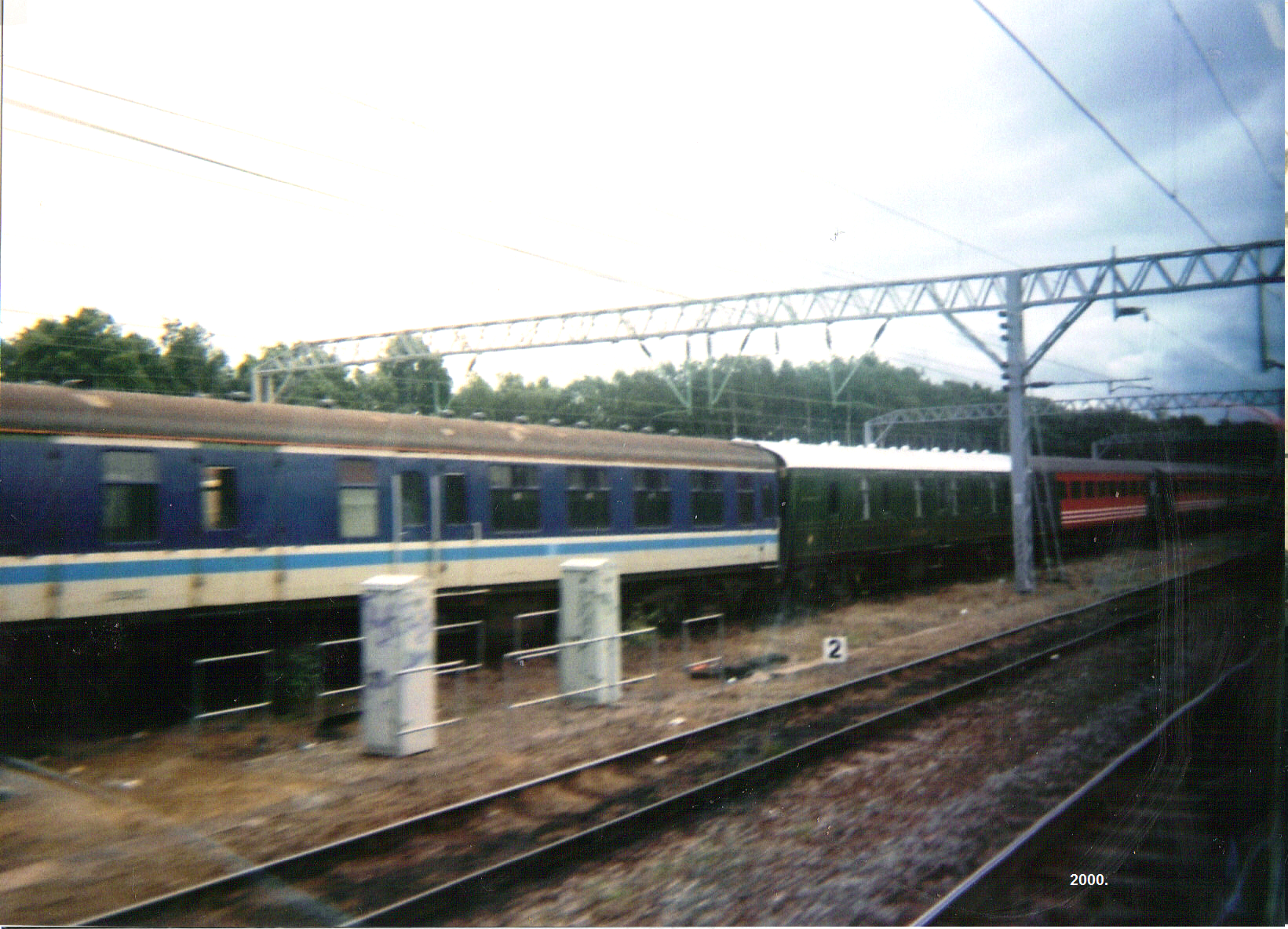 I took a picture of the Green preserved and blue and white BR regional railways Mk1 carriages in Crewe during 2000.